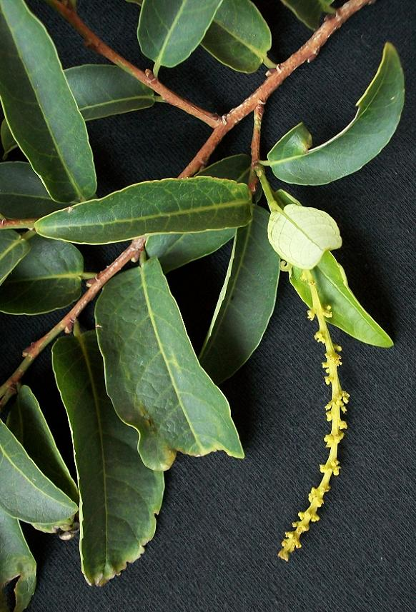 Sclerocroton integerrimus inflorescence at Amanzimtoti